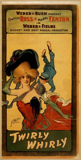 Ross and Fenton, 1890s vaudeville act